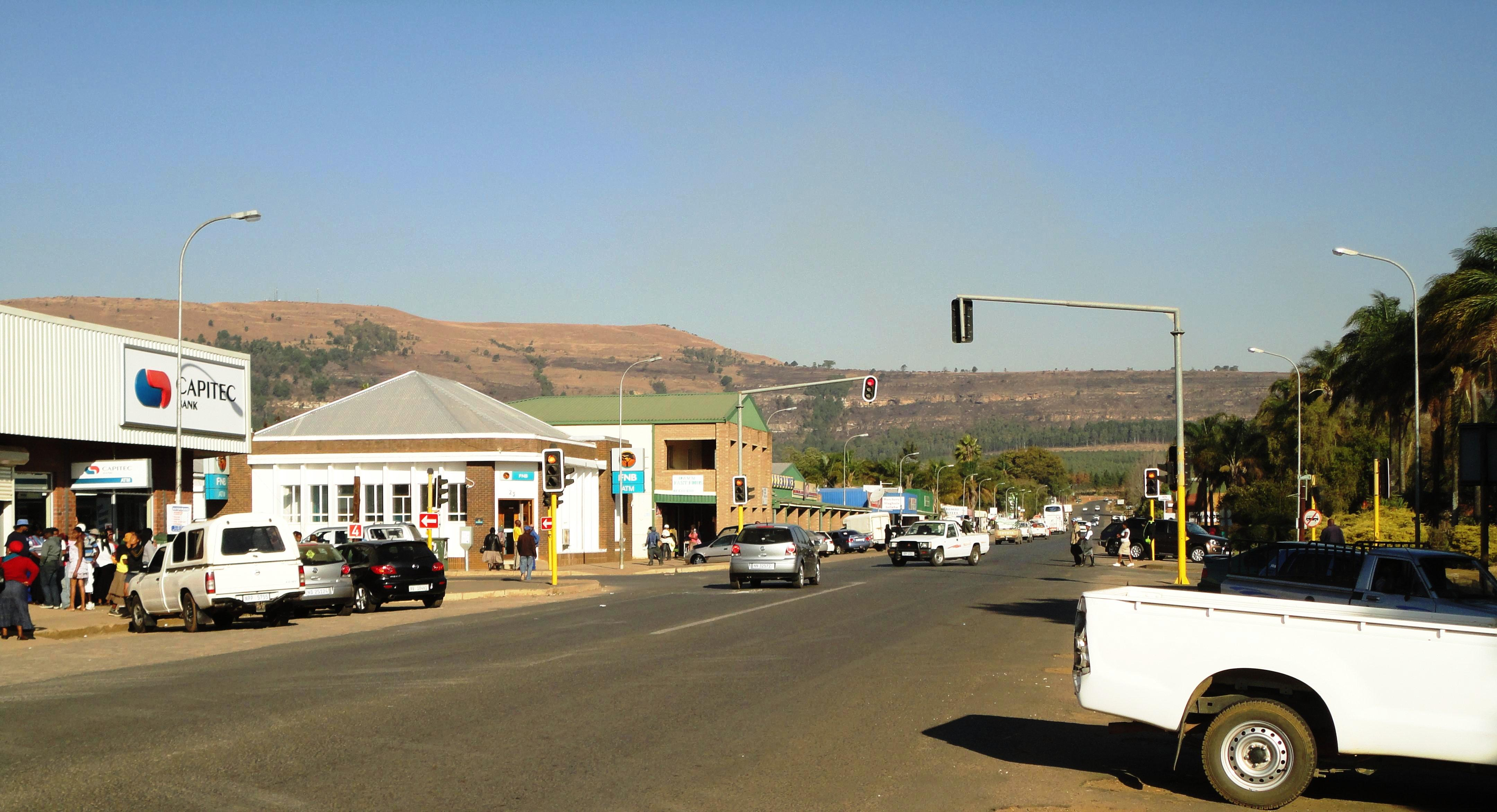 Intersection of Hoog Street and Kruger Street in Paulpietersburg, KZN, with view on Dumbe-hill to south